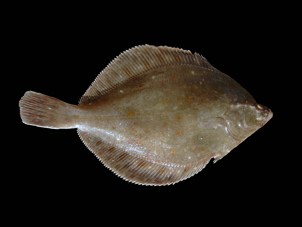 Plaice on board of RV Belgica from the southern North Sea.